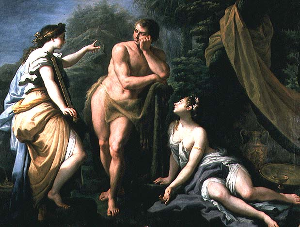 Hercules at the crossroads